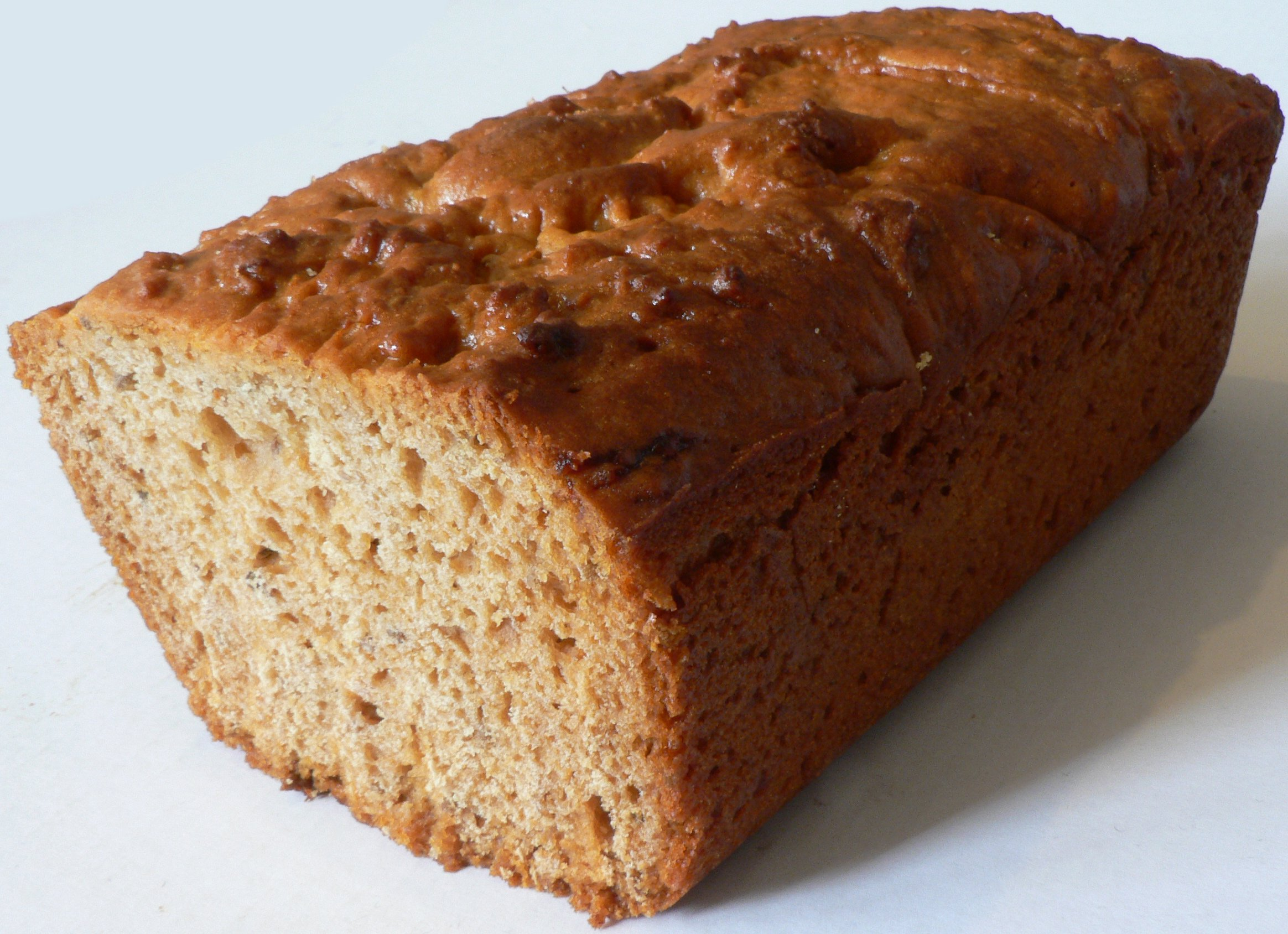 Pain d'épices, a French pastry containing honey and spices; home-made by the photographer